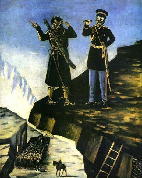 Sheteh Helps Prince Bariatinsky to Apprehend Shamil. Oil on oil-cloth, 113x89 cm. The State Museum of Fine Arts of Georgia, Tbilisi